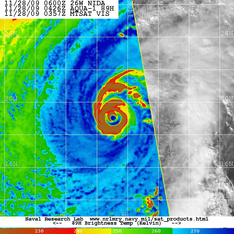 Shows 2 concentric eyewalls and the eyewall replacement cycle of Typhoon Nida (2009)